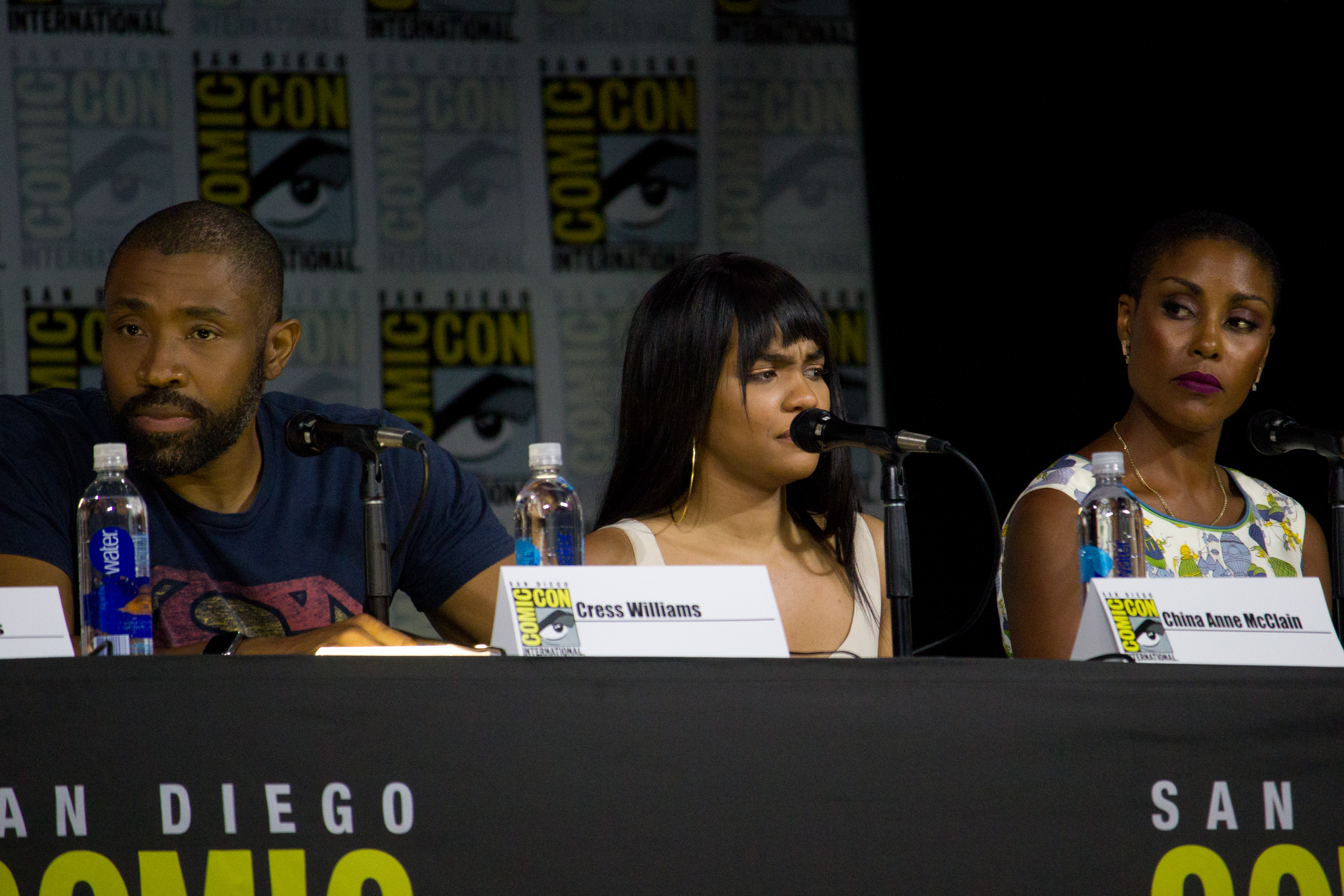 Cress Williams, China Anne McClain and Christine Adams speaking at the 2017 San Diego Comic Con International, for "Black Lightning", at the San Diego Convention Center in San Diego, California.